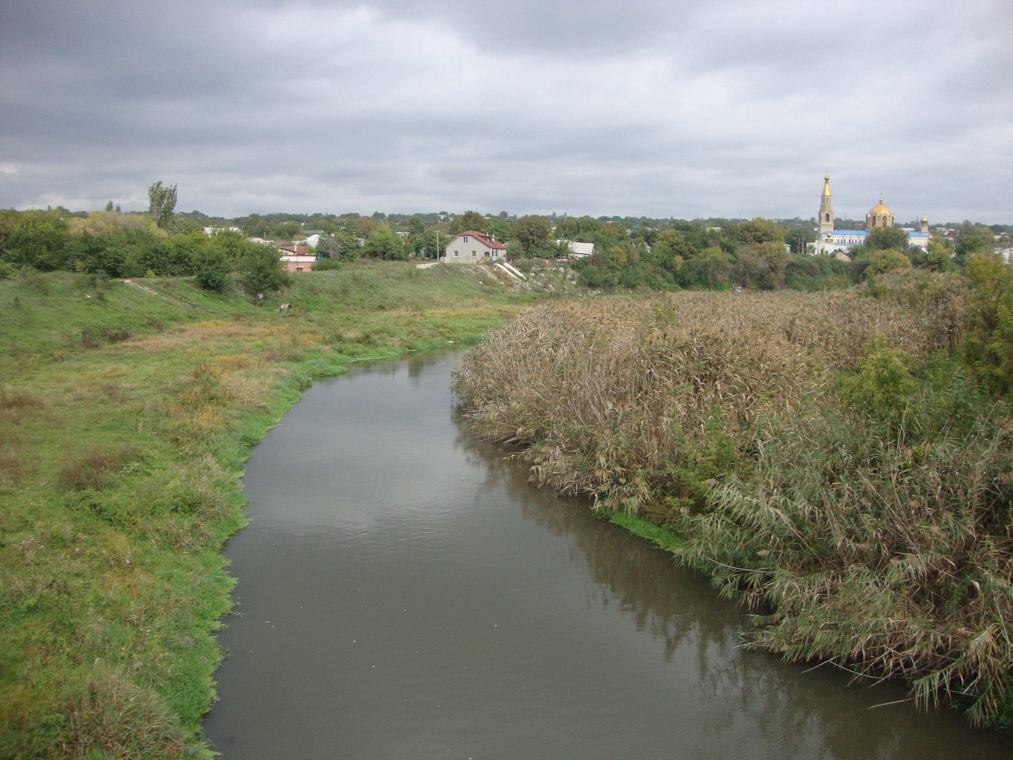 Luhan river and Saints Peter and Paul Cathedral in Luhansk